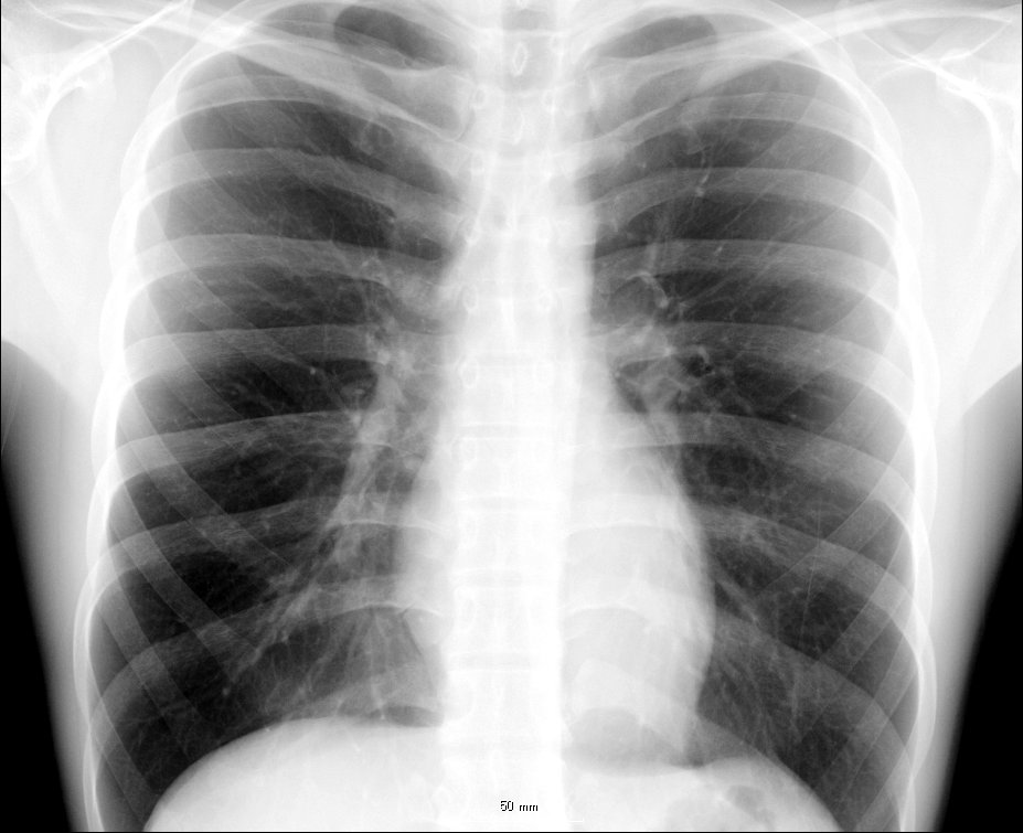 An X-ray photo of my chest. File size modified